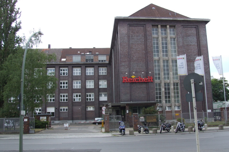 Former Headquarter Otto Reichelt in Berlin-Marienfelde